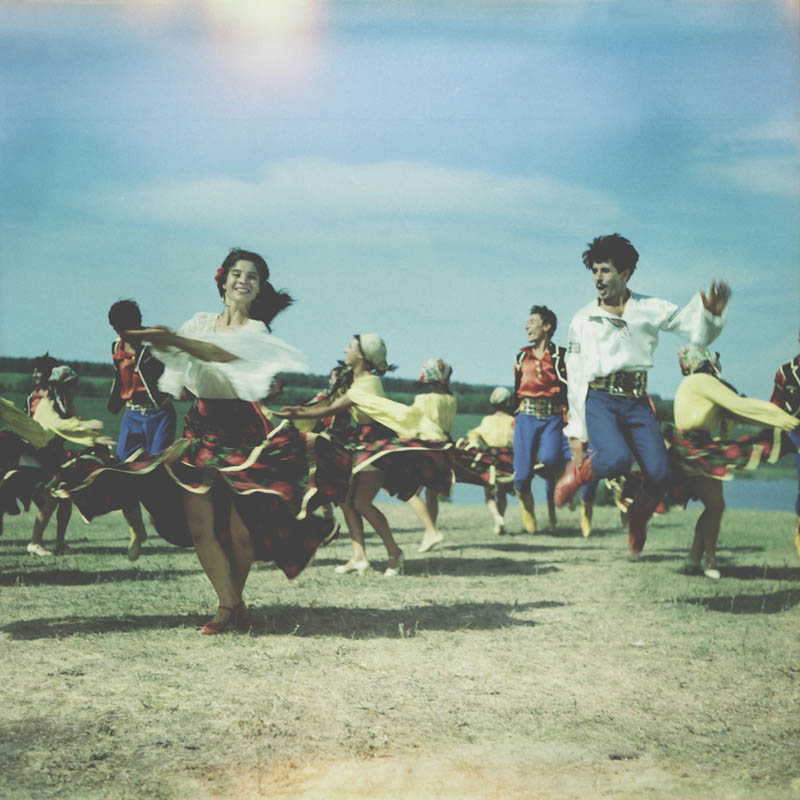 Joc - the state academic ensemble of national dance of Moldova, before tour in the USA.